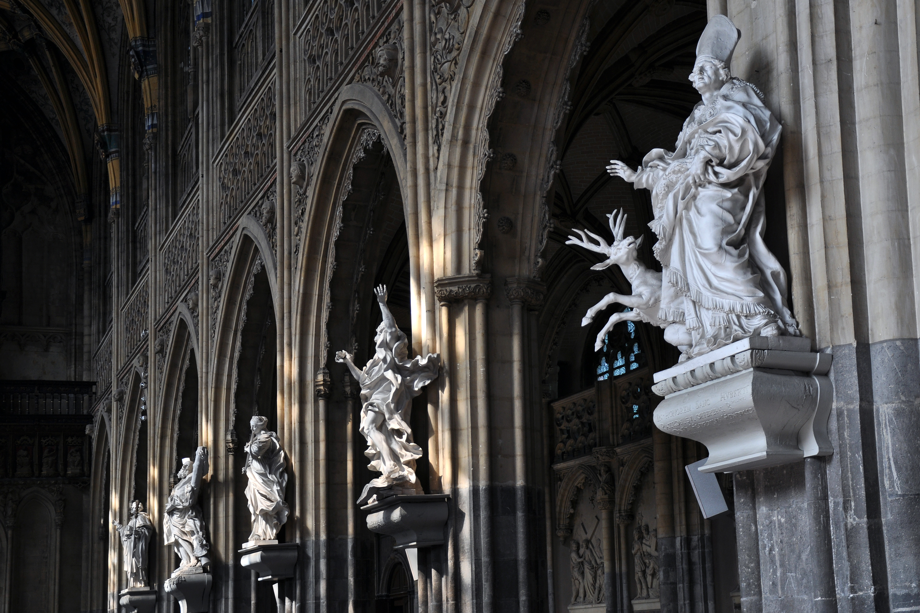 Liège (Belgium), Saint Jacques's Church : the nave with the statues by Jean Del Cour, end of the 17th century, lime wood.